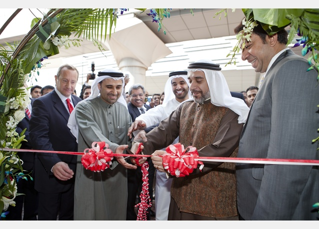 Kanoo Travel Call Center opening